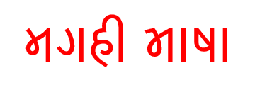 Magahi Bhasa (Magahi Language) written in the original Kaithi Script.